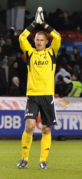 Ivan Turina, Croatian football player